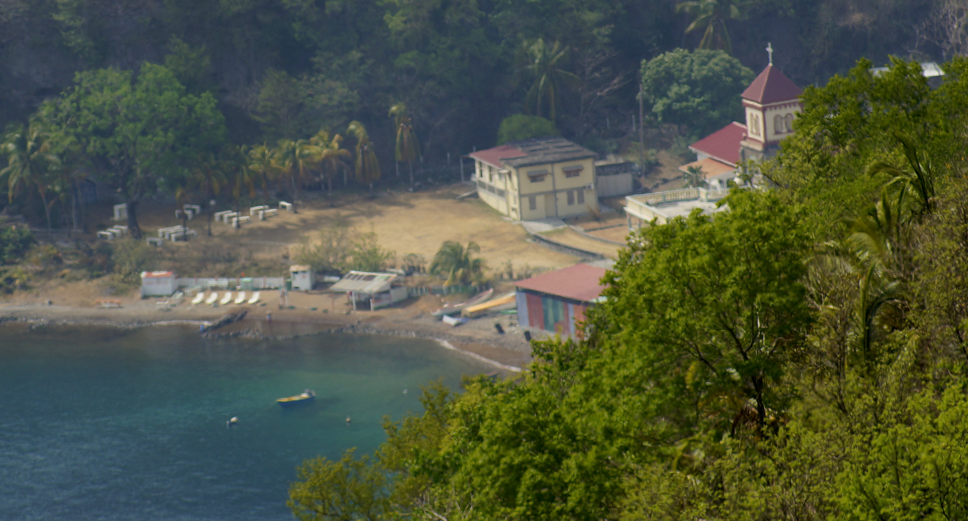 A view of Soufrière from atop a hill during a hike along the Waitukubuli Trail. More freely usable Dominica Travel Images.